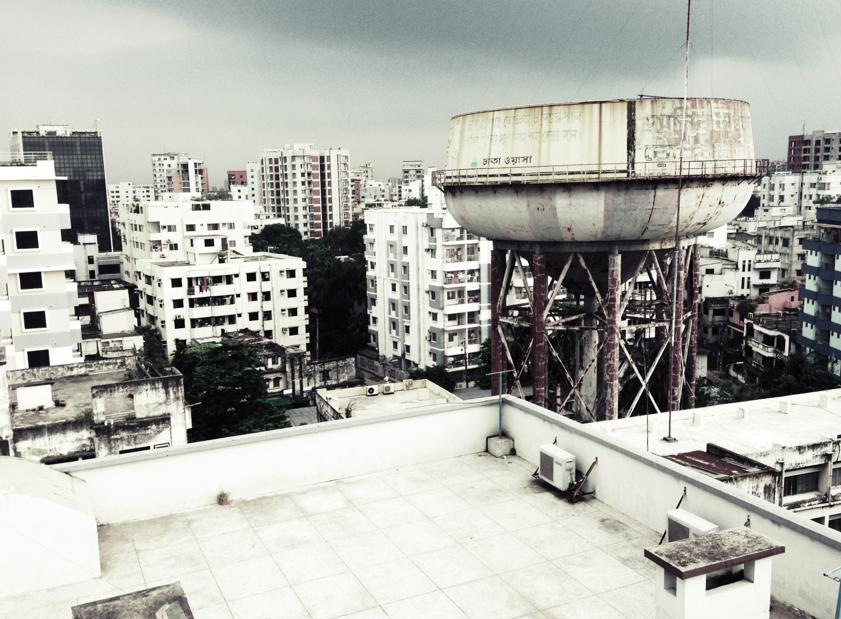 An image of the water tank in Lalmatia A - Block